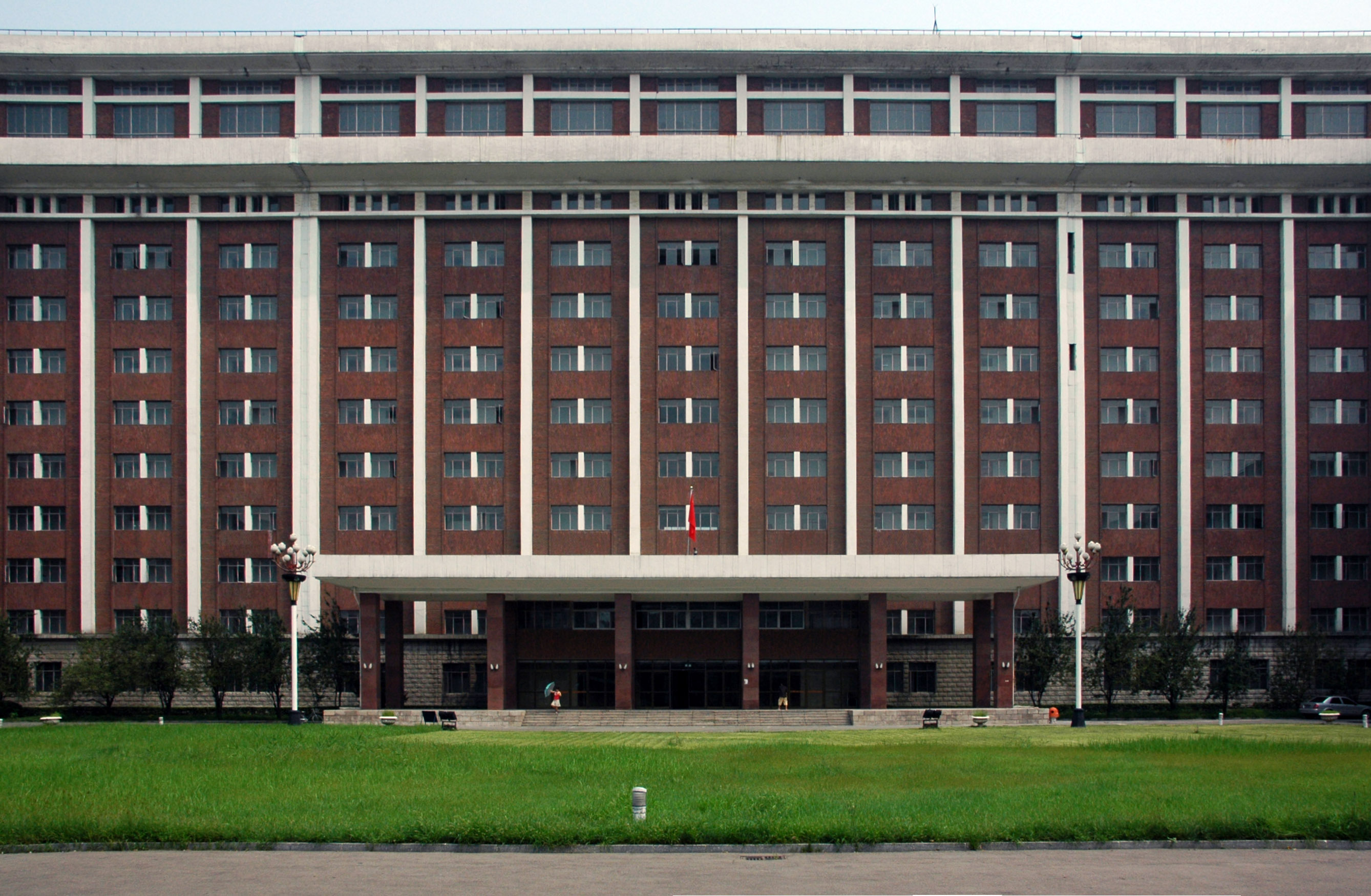 Photograph of the front facade of Tianjin University of Technology, Tianjin, China.